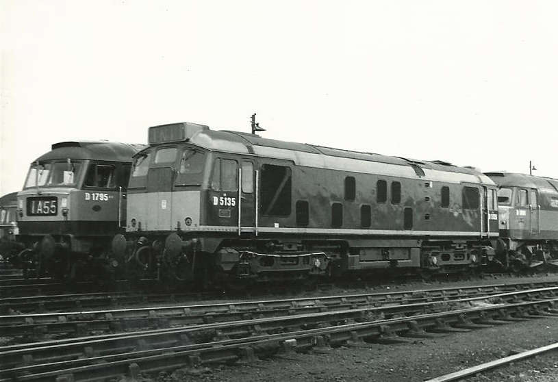 BR/Beyer Peacock Type 2 1,160hp Bo-Bo (later Class 24/1) No.D5135 (later 24 135) with headcodes in BR green livery with white stripe and small yellow warning panel at York Shed, 07/67. Scanned photograph taken with a Kowa SET camera. D1795 was renumbered 47314 under the T.O.P.S. system.